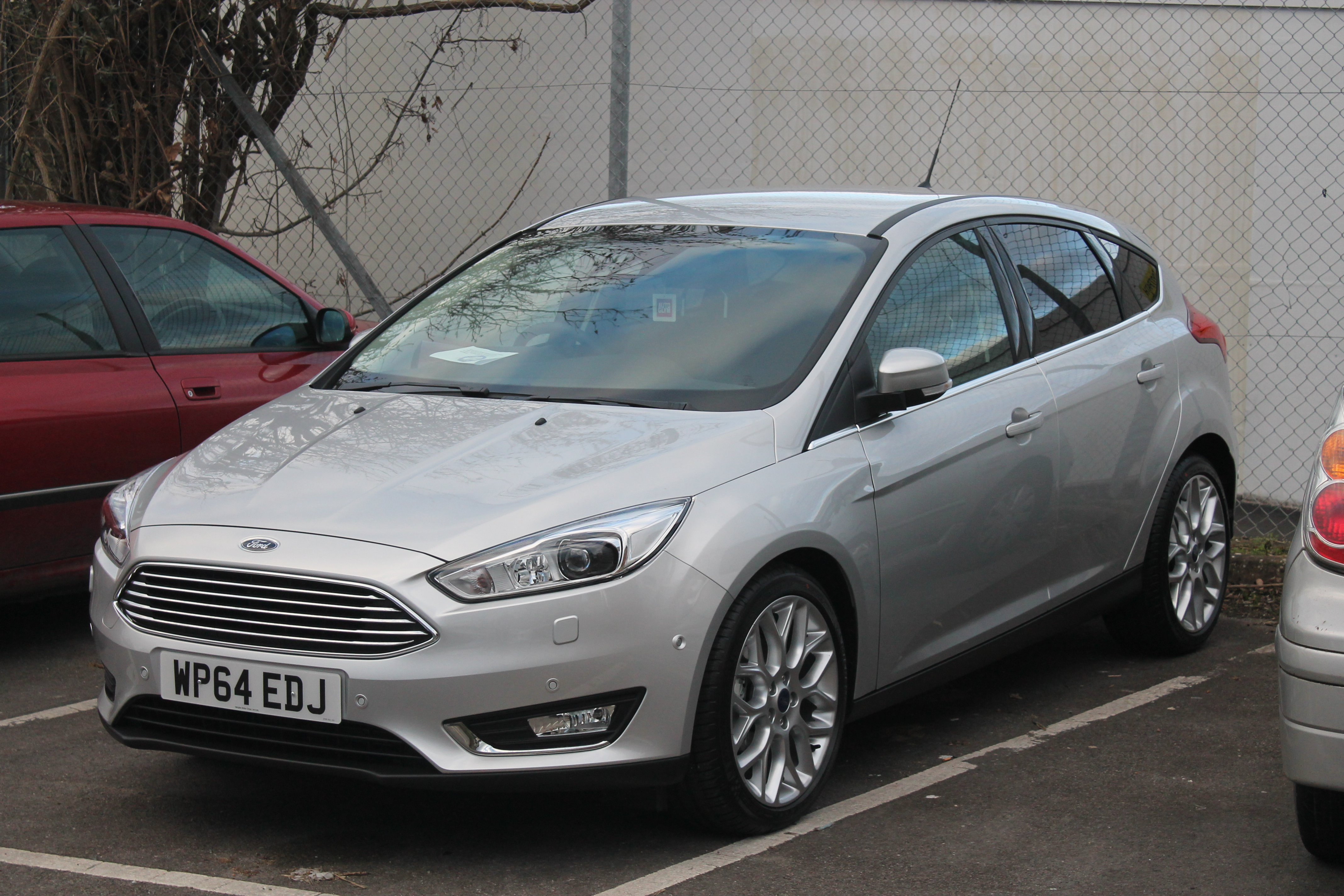 This caught my eye in a station car park, I didn't even know they'd been released yet. Looks much like the Mondeo and Fiesta. This brand new car was first registered just 2 days ago. Has anyone else seen these yet? Not even on Cartell yet.